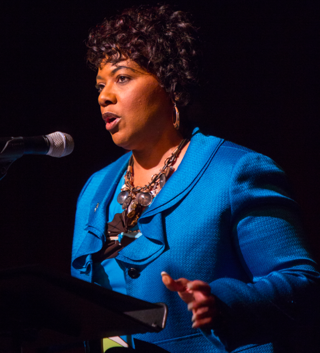 AUSTIN, APRIL 9-- Bernice A. King, daughter of Martin Luther King Jr. and the Chief Executive Officer of the King Center, reads a quote from MLK before remarks by former President Bill Clinton. Photo by Eric Draper.